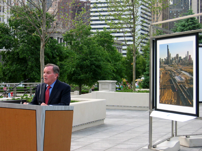 Chicago Mayor Richard M. Daley at 2005 Revealing Chicago Photo Exhibition at Boeing Galleries and Chase Promenade